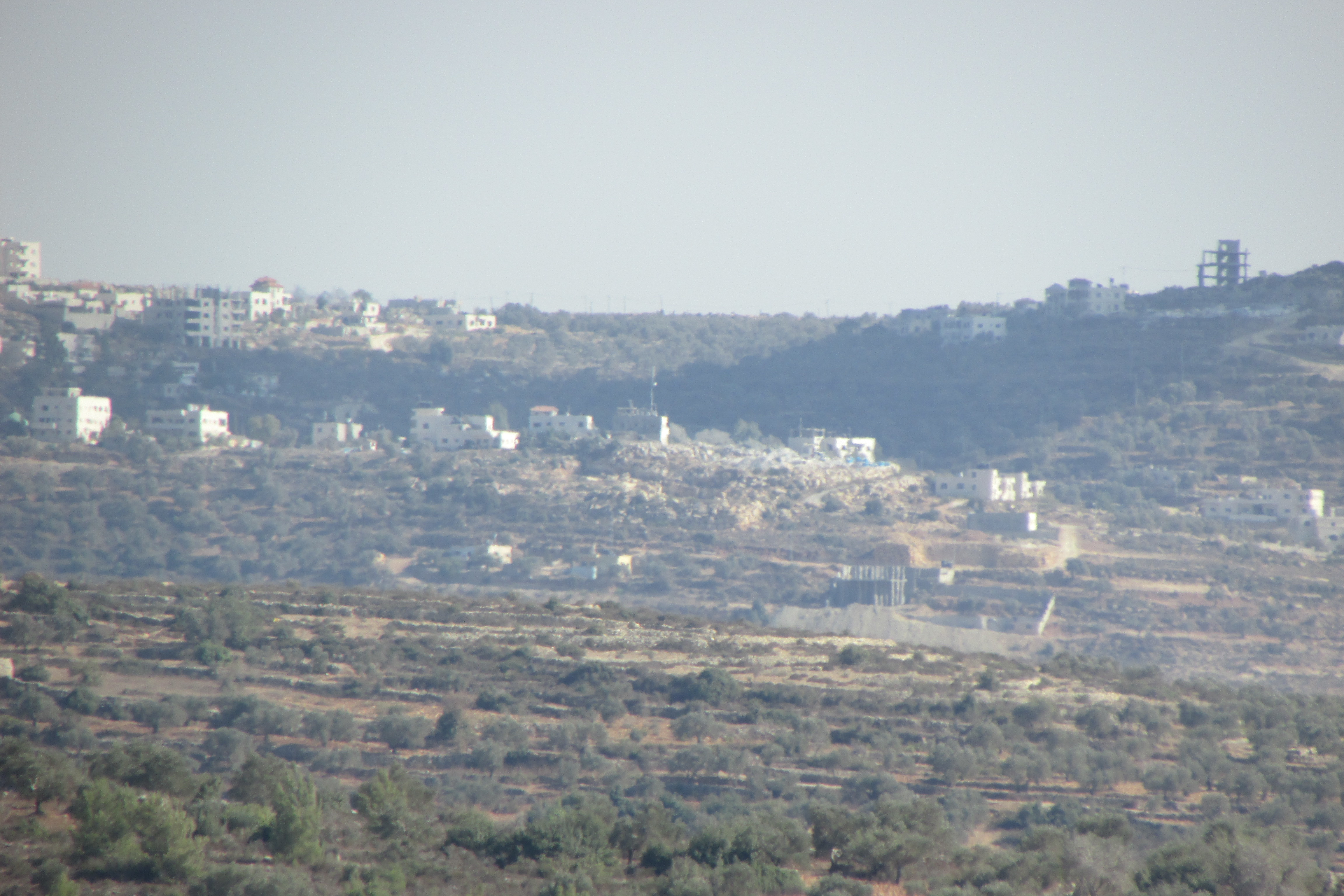 al-Mazra'a al-Qibliya. Taken from Halamish.